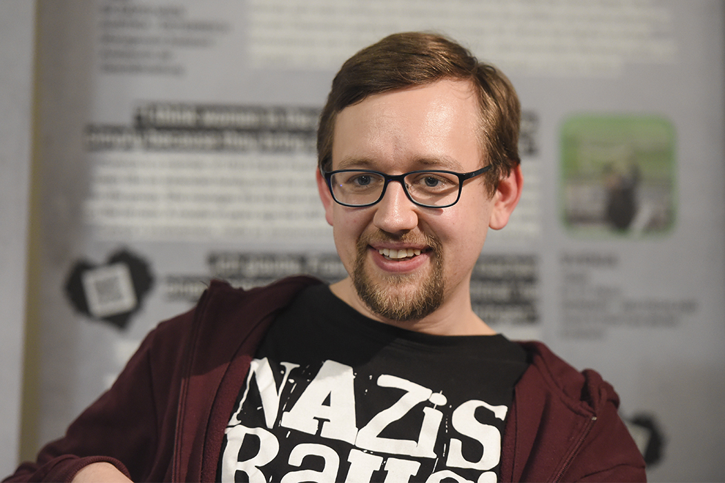 Max-Jacob Ost at the 11mm filmfestival